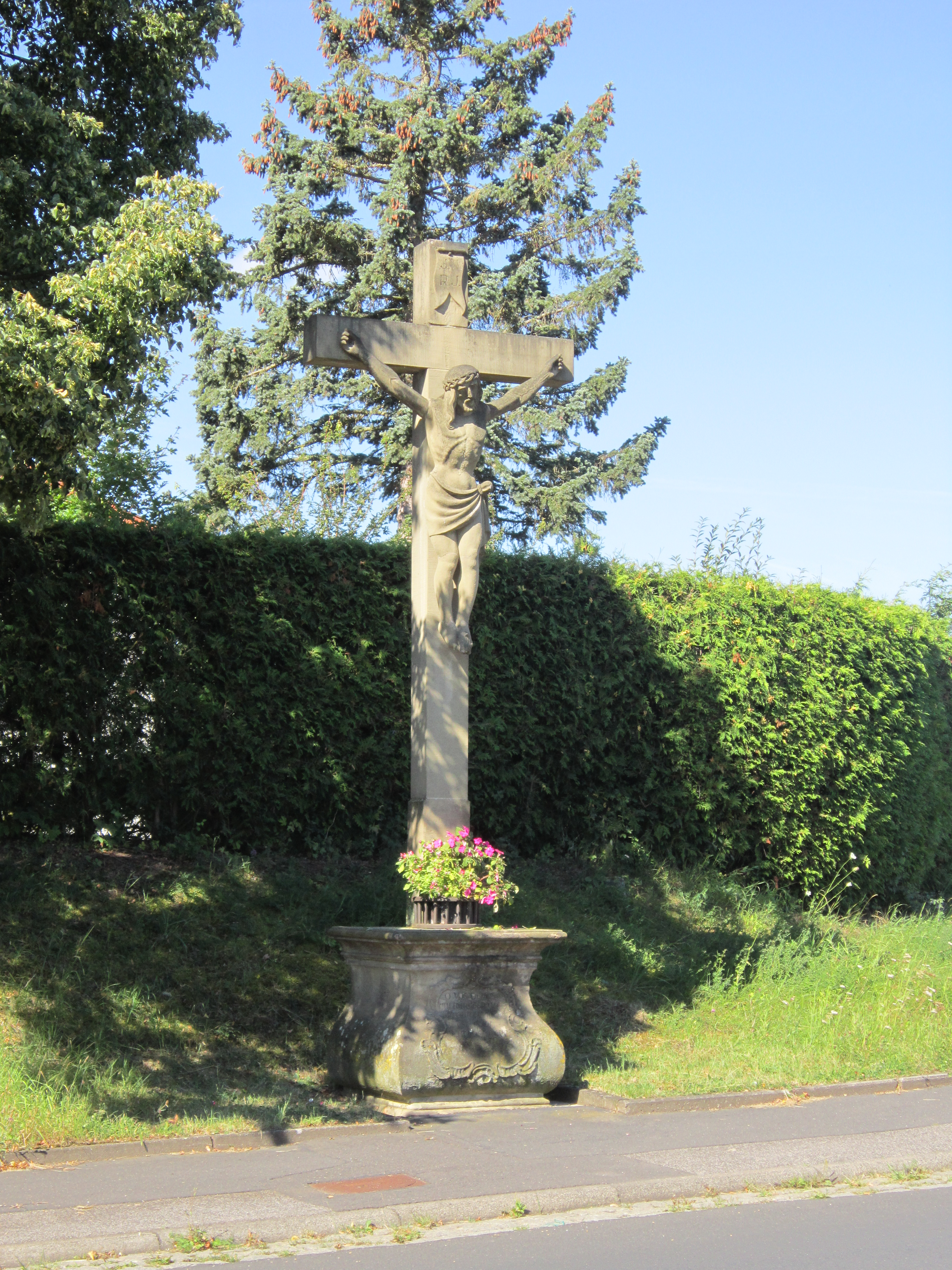 Wayside shrine in Arnshausen, a quarter of the German spa town of Bad Kissingen in Lower Franconia (Bavaria) (near Iringstraße)